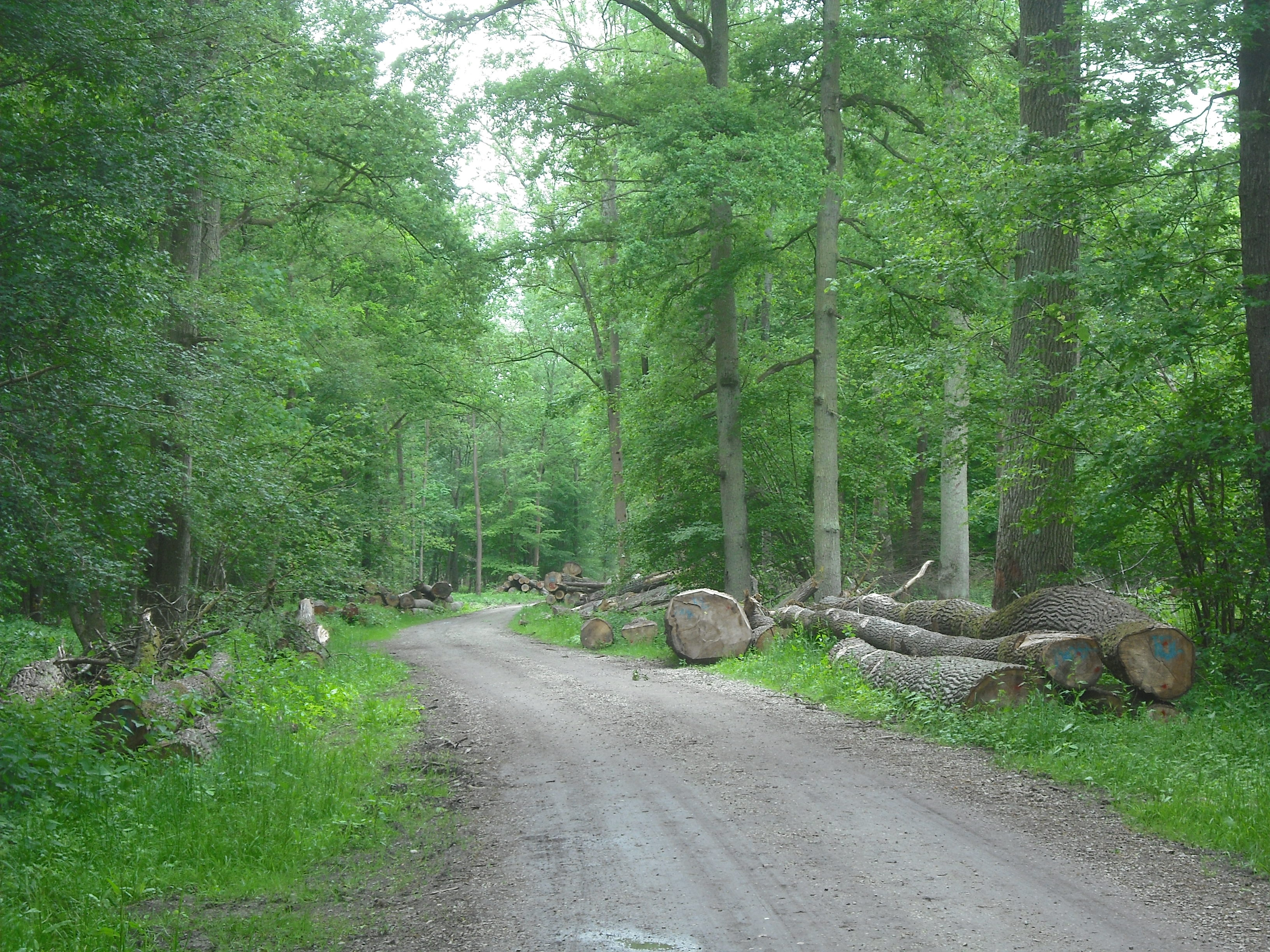 Forêt de l'Ilwald, Sélestat, France.